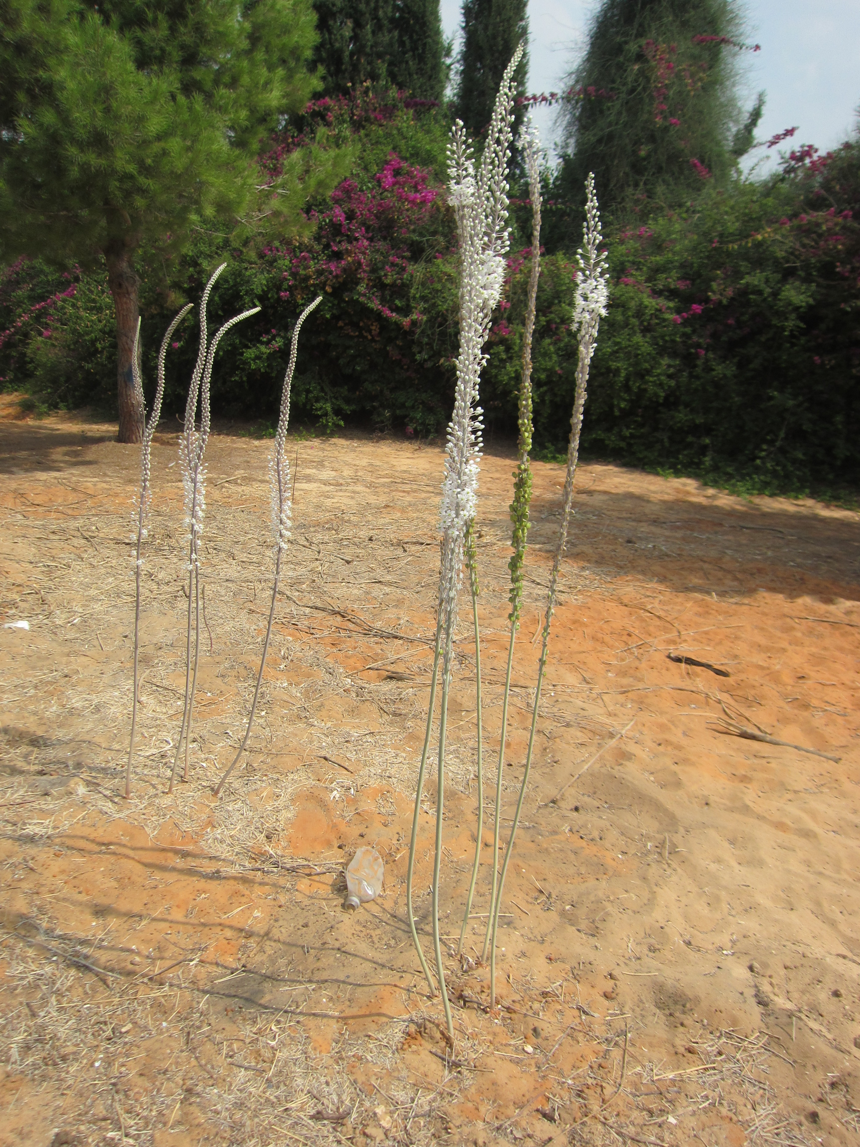 Beit Weizmann